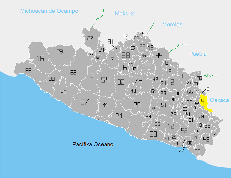 locator map Guerrero